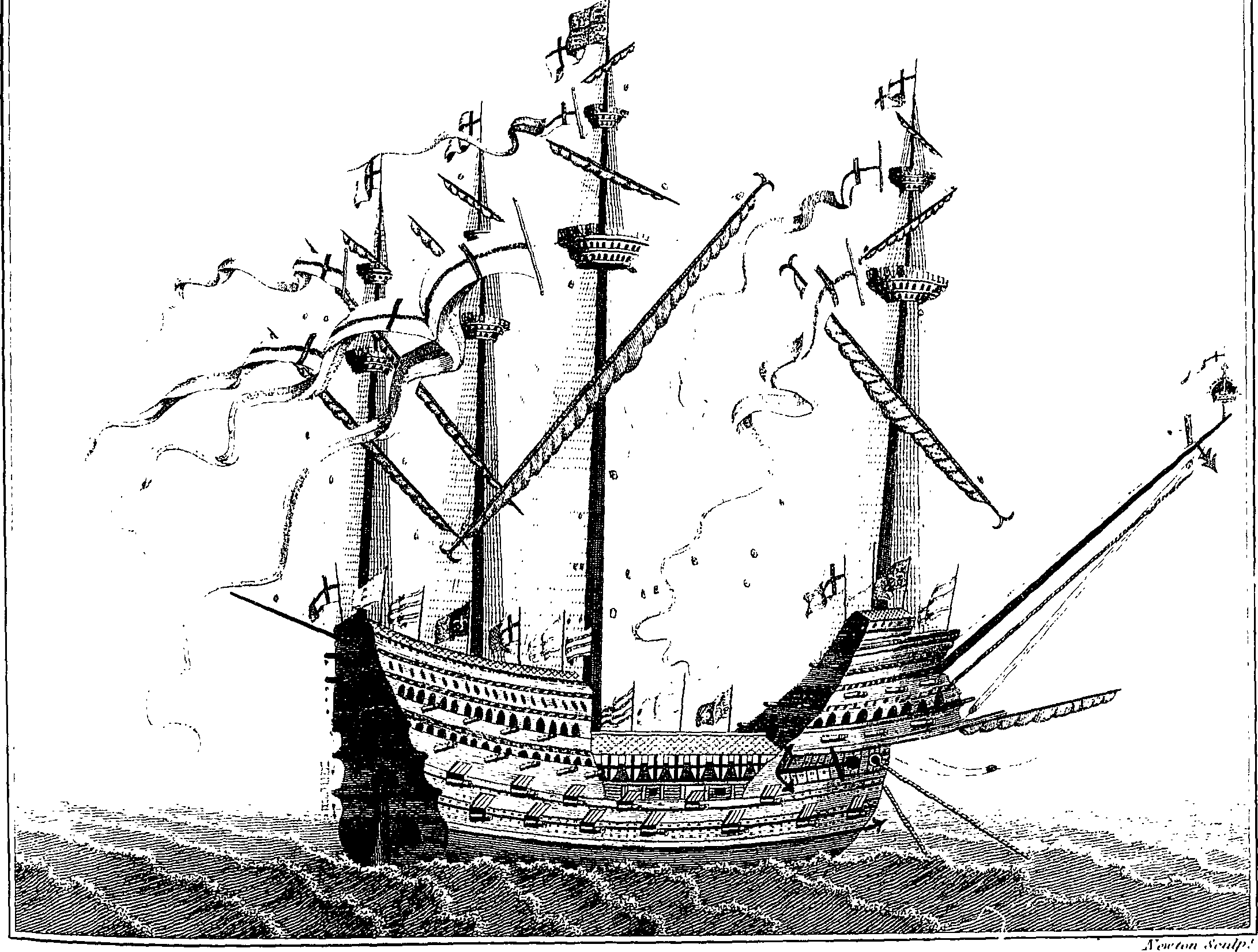 Fleuron from book: An history of marine architecture. Including an enlarged and progressive view of the nautical regulations and naval history, both civil and military, of all nations, especially of Great Britain; derived chiefly from original manuscripts, as well in private collections as in the great public repositories: and deduced from the earliest period to the present time. In three volumes. ... By John Charnock, Esq. F.S.A.